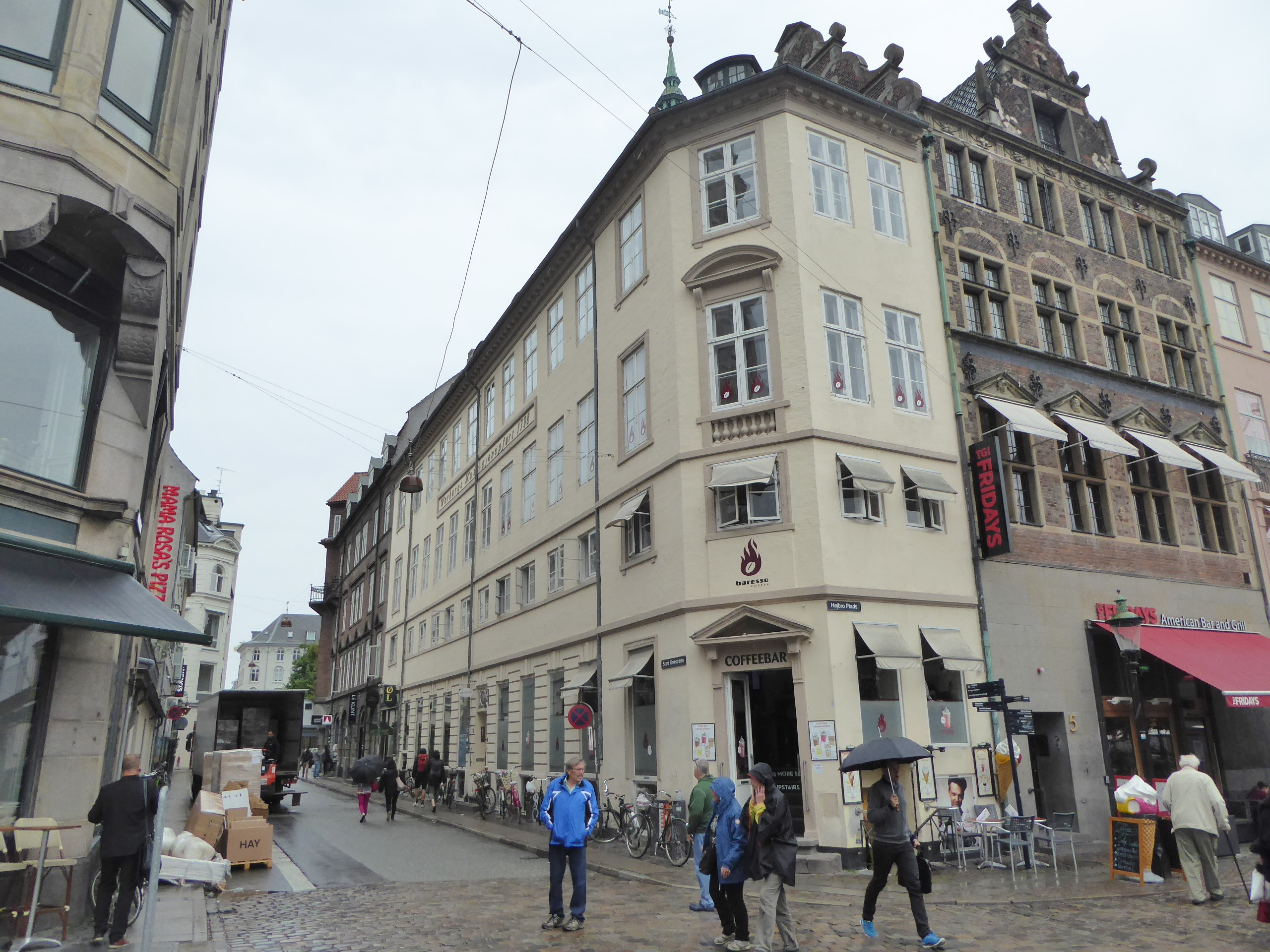 Building at the corner of Store Kirkestræde and Højbro Plads in Indre By in Copenhagen.